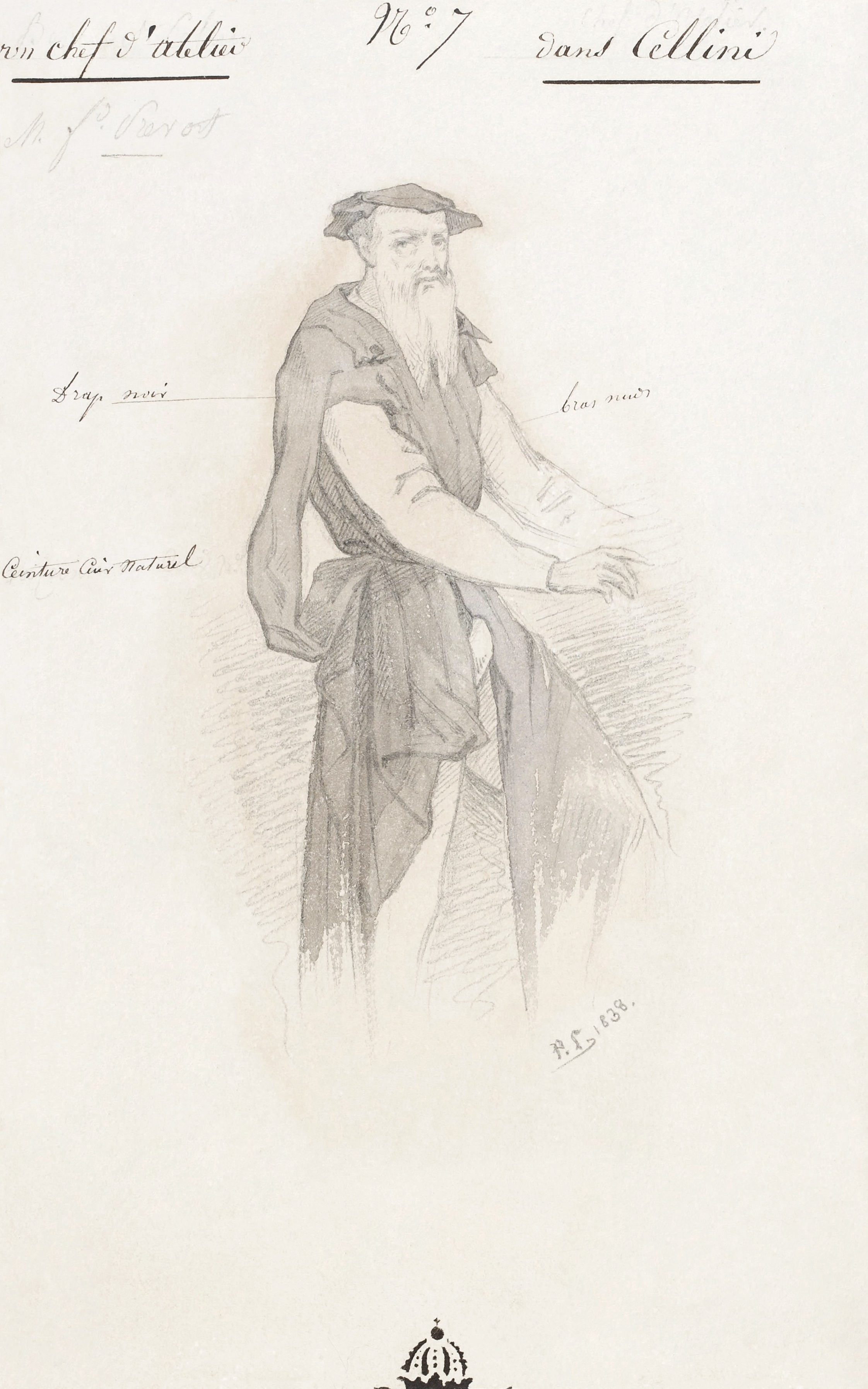 Ferdinand Prévôt as Bernardino from a set of costume designs by Paul Lormier for the original production of Hector Berlioz's Benvenuto Cellini.